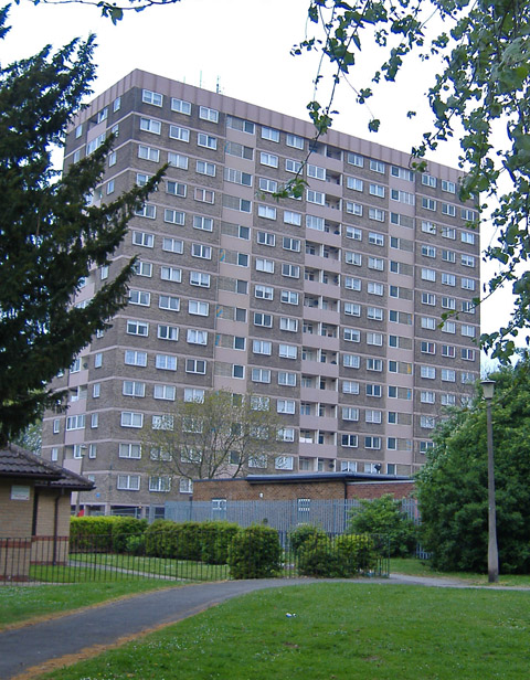 Lindsey Place flats These Hull City Council flats are on Arcon Drive, off Anlaby Road. They are currently (May 2007) undergoing a £3m refurbishment.